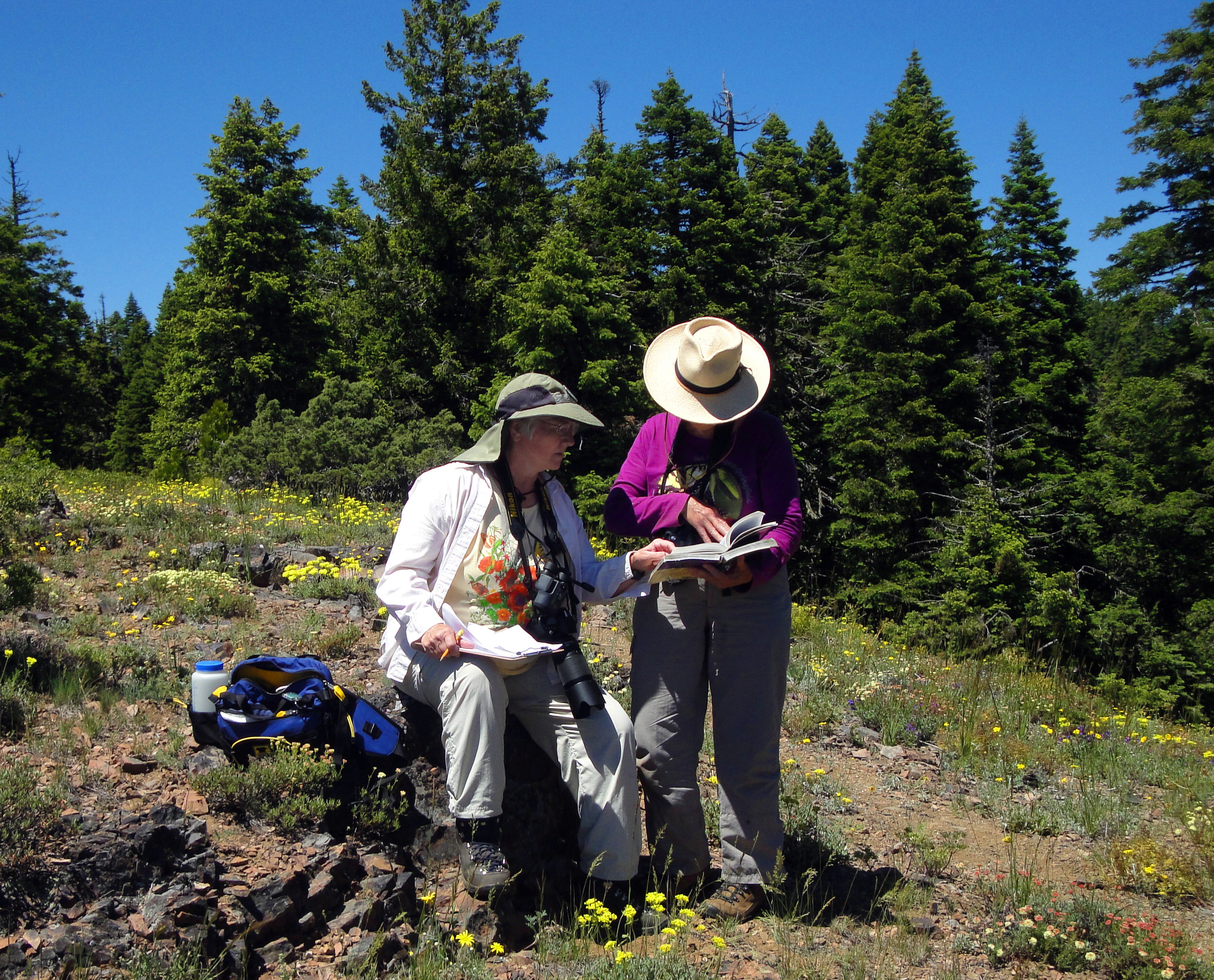 Diane Keller had an idea for adventure. With a passion for the Northwest’s diverse butterfly species, Diane – a former BLM employee – shared her idea with the Eugene-Springfield Chapter of the North American Butterfly Association (NABA). They would head out to the Cascade-Siskiyou National Monument with their guide books, nets, and cameras to count some of the most beautiful butterflies Oregon has to offer. Incorporating the magic of nature with the science of fieldwork... Photo by Rick Ahrens